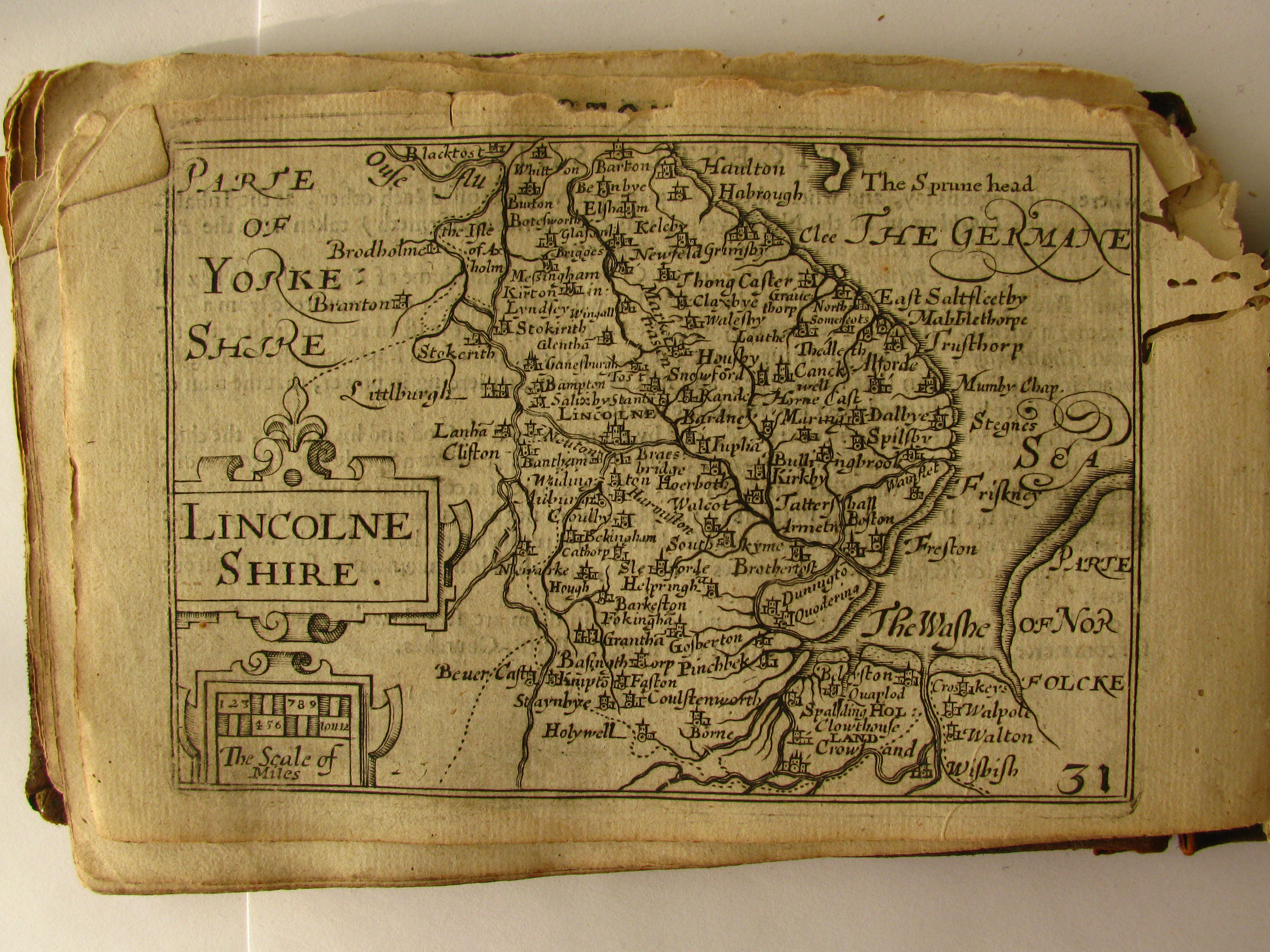 Map from the 1627 "Miniature Speed Atlas" of England, Scotland, Ireland and Wales, with maps by Pieter van den Keere. Photograph taken by me, the atlas owned by me